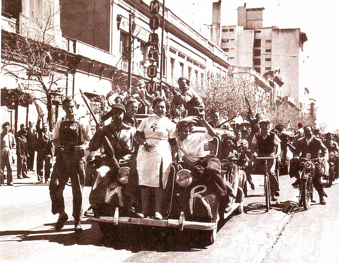 Celebrating in the city of Córdoba the victory of the coup d'état in Argentina self-named "Revolución Libertadora" (Liberator Revolution) that overthrew Juan Domingo Perón.